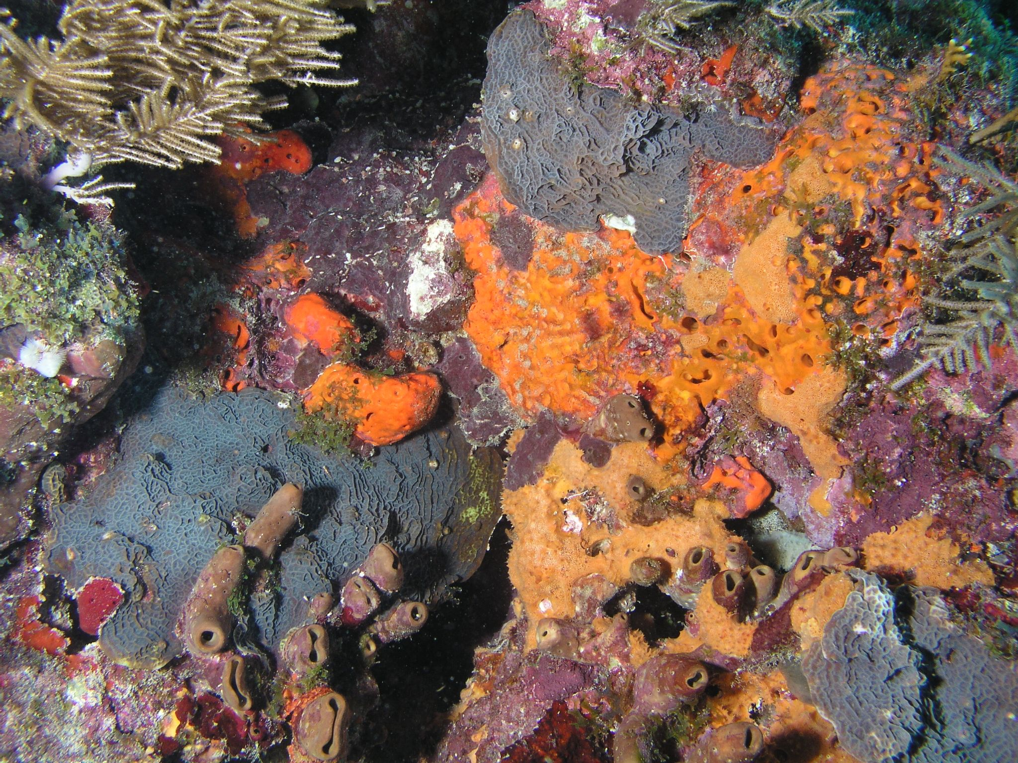 Coral and encrusting sponge